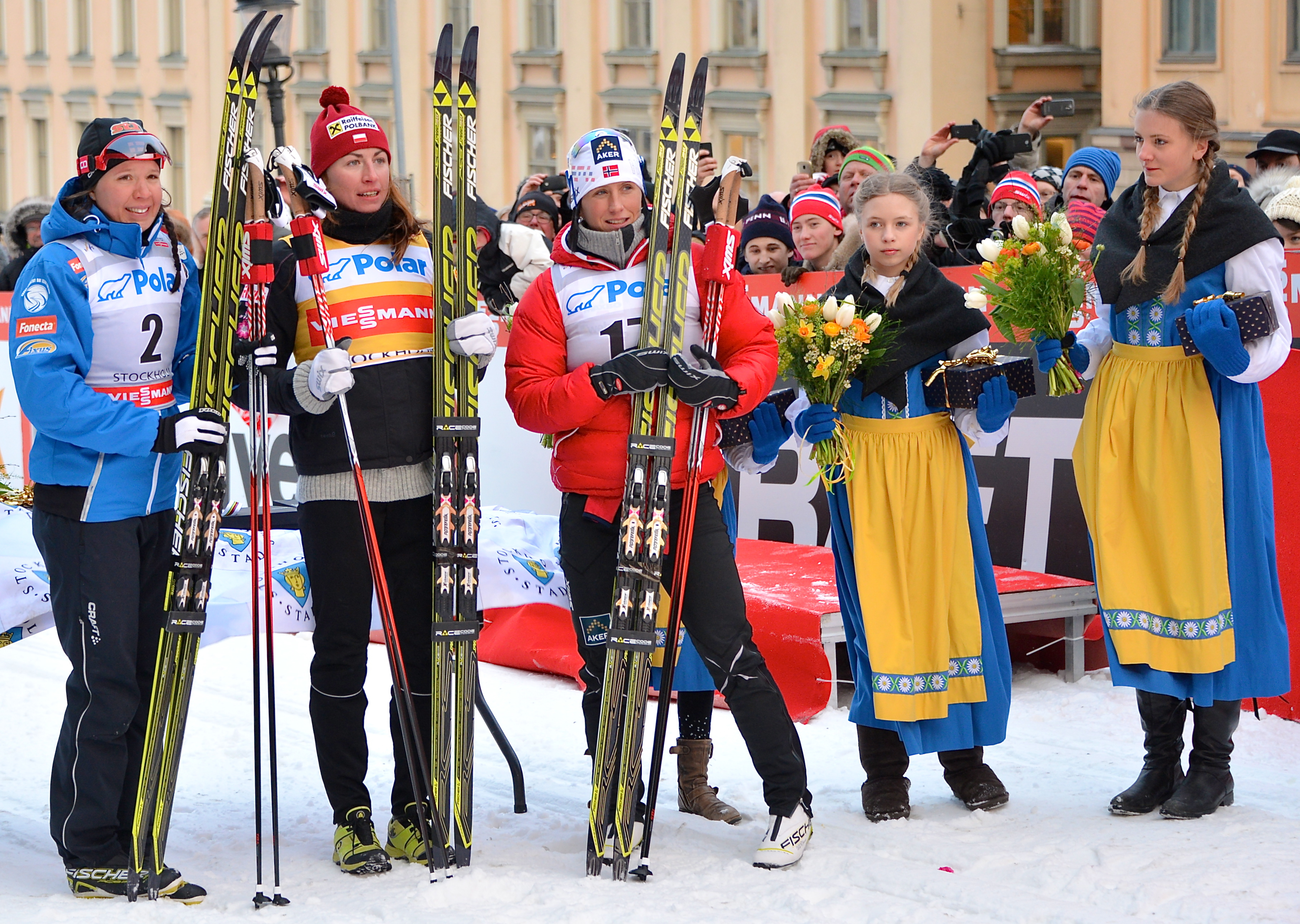 Kerttu Niskanen, Justyna Kowalczyk, Marit Bjørgen at Royal Palace Sprint in Stockholm on March 20, 2013